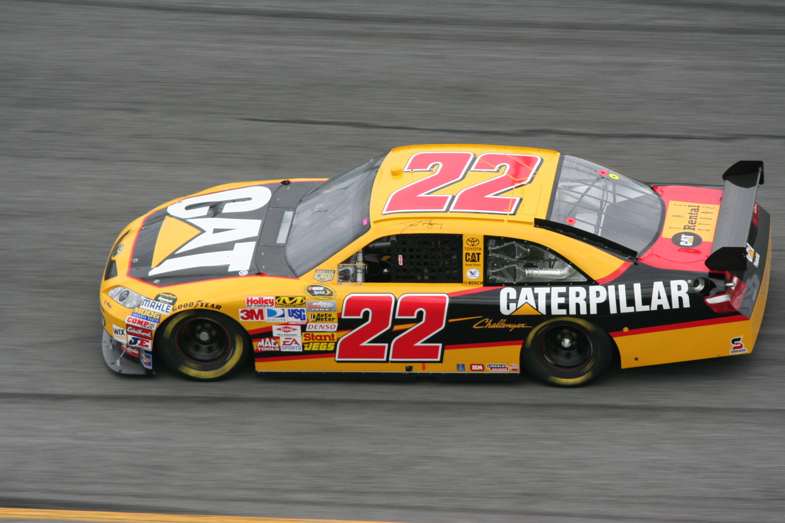 Shot by The Daredevil at Daytona during Speedweeks 2008Dave Blaney Caterpillar Toyota Camry